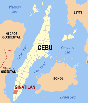 Map of Cebu showing the location of Ginatilan